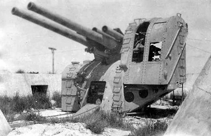 Japanese Type 89 127mm dual-purpose gun in Kwajalein (March 1945). This type of gun was a very common air/costal defense weapon in the Central Pacific Theater.